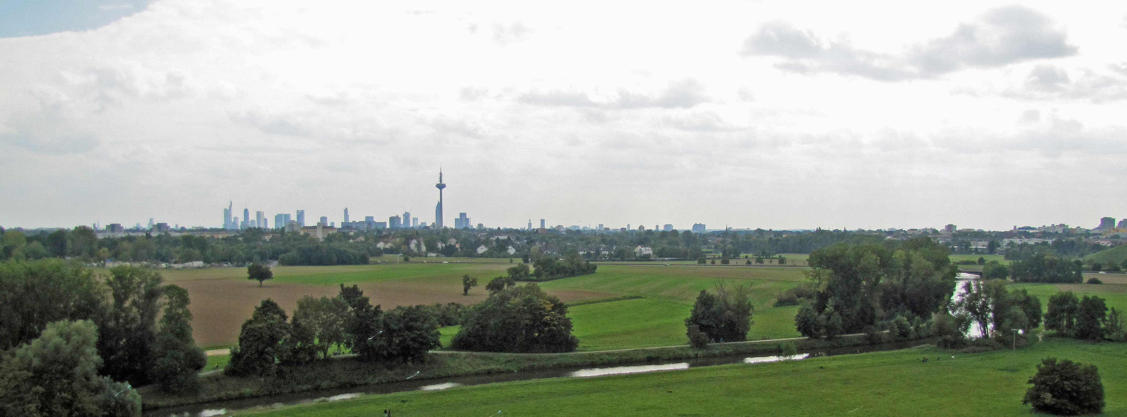 Valley of the "Nidda" river, in Frankfurt am Main, Germany.